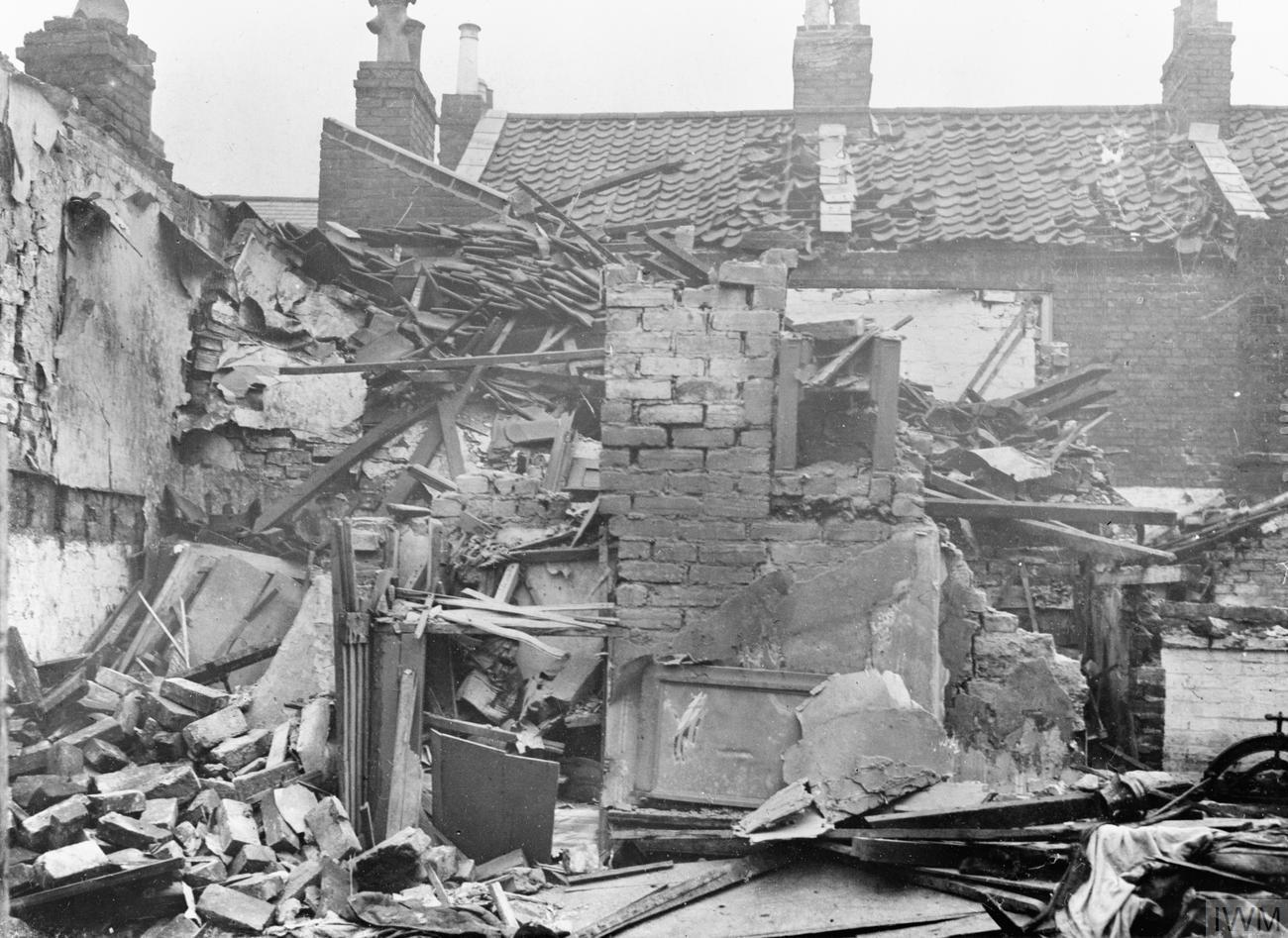 The German Zeppelin Raid on King's Lynn, January 1915 Destroyed property in King's Lynn, Norfolk, following the raid by Kapitänleutnant von Platen-Hallermund of Zeppelin L4 on 19 January 1915.